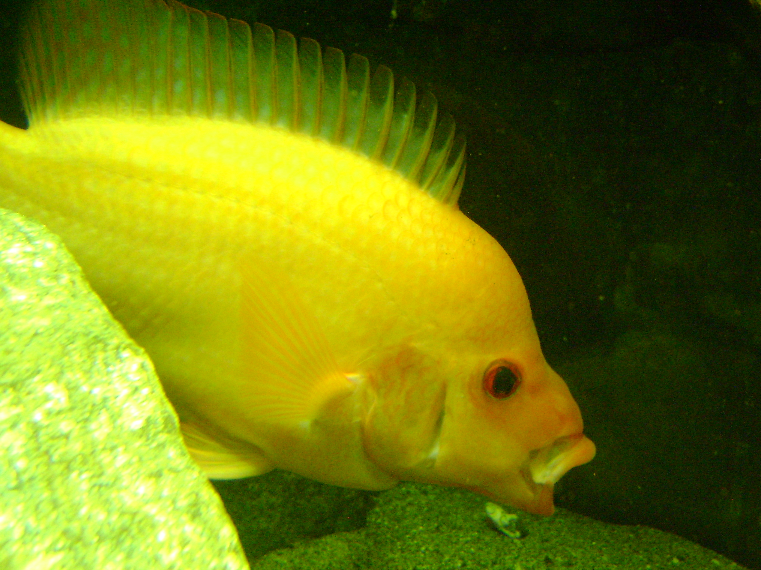 Amphilophus labiatum, yawning in aquarium. Wrong colors due to bad lighting, the real colour is salmon with some red sprinkles in the fin (like this photo)